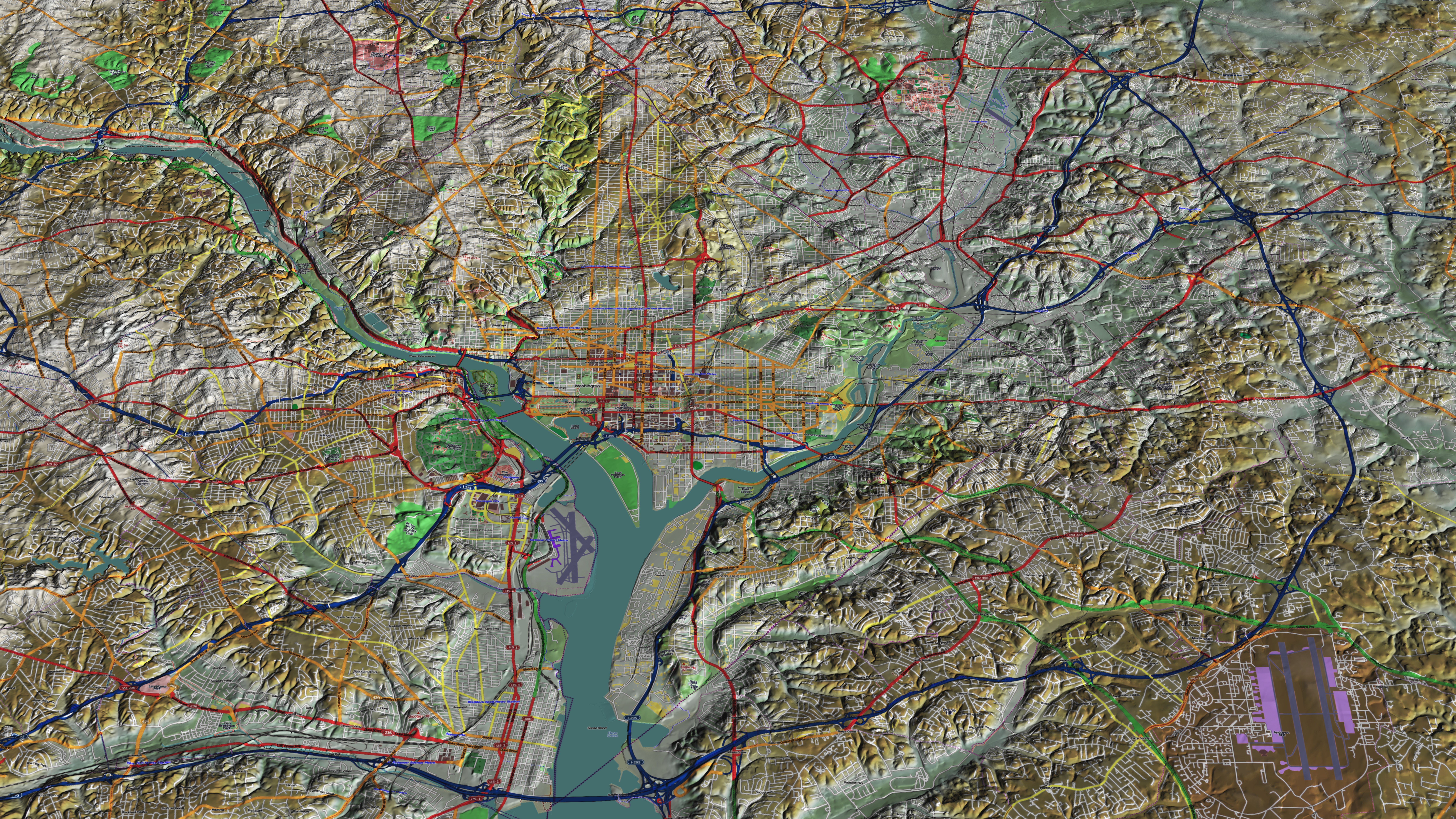 Washington, DC, computer image generated using TruFlite